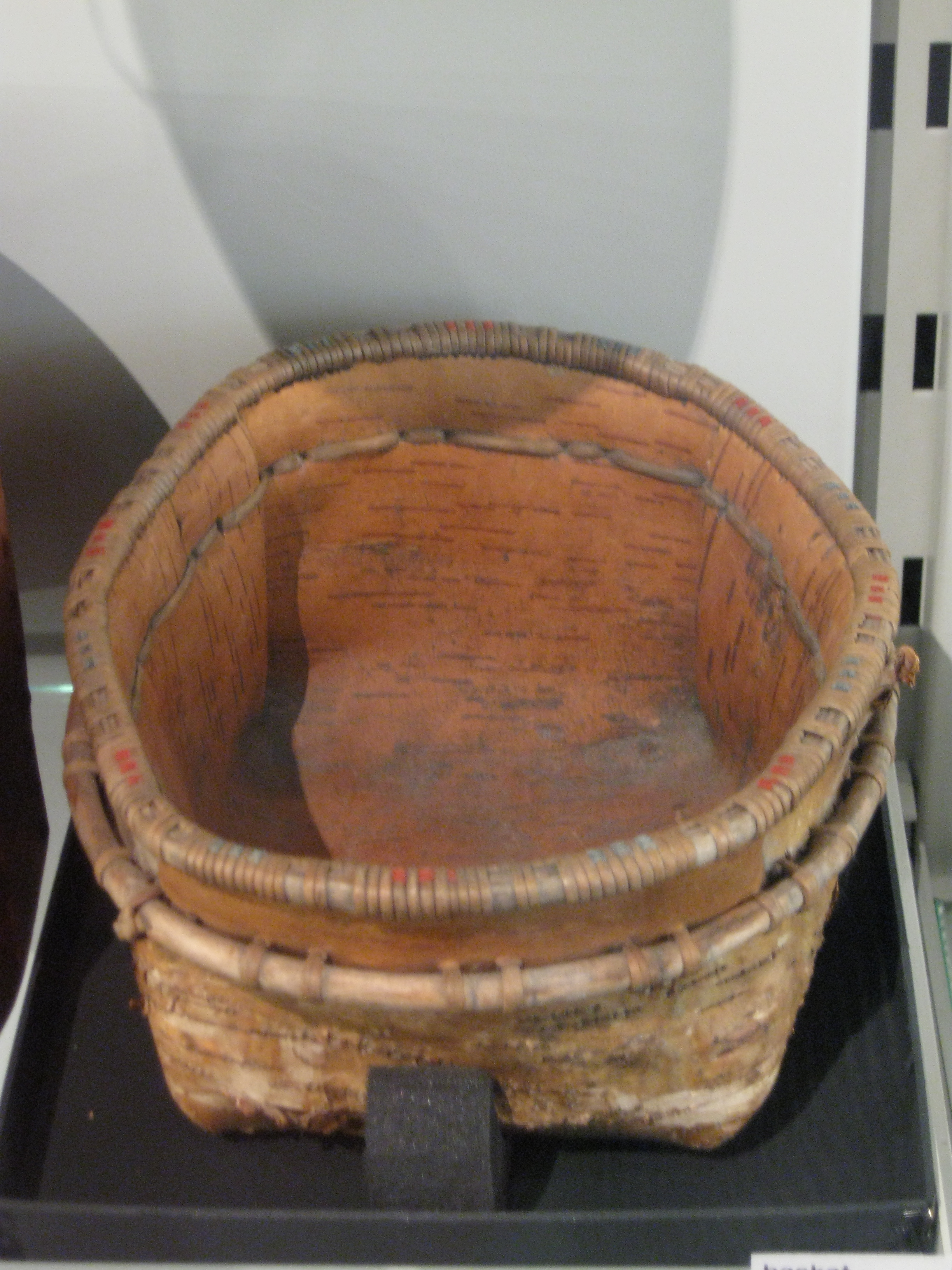 A central Yup'ik or Yupik basket. The Yupik are Alaskan natives Indians. This object is today located at UBC's Museum of Anthropology in Vancouver, BC, Canada, where its museum catalogue number is A2.620.